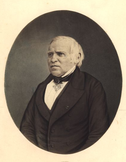 Photo of Christian Gottfried Ehrenberg (1795-1876), German naturalist, zoologist, and comparative anatomist, taken (probably) in Berlin 1859.